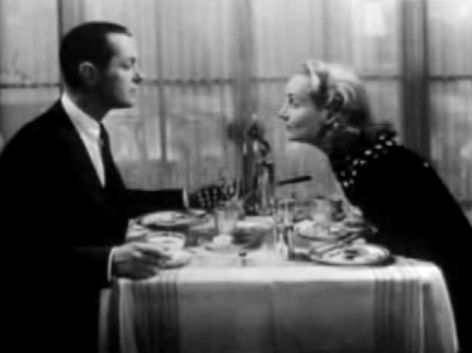 Cropped screenshot of Robert Montgomery and Carole Lombard from the trailer for the film Mr. & Mrs. Smith